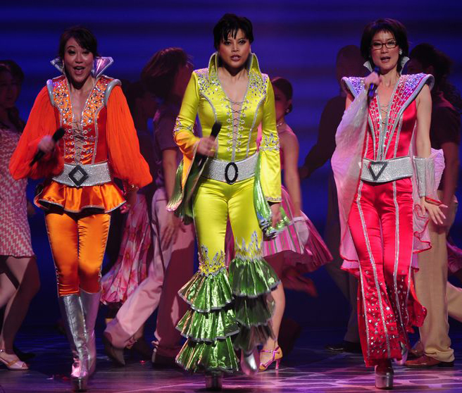 Mamma Mia! Japanese production picture 01